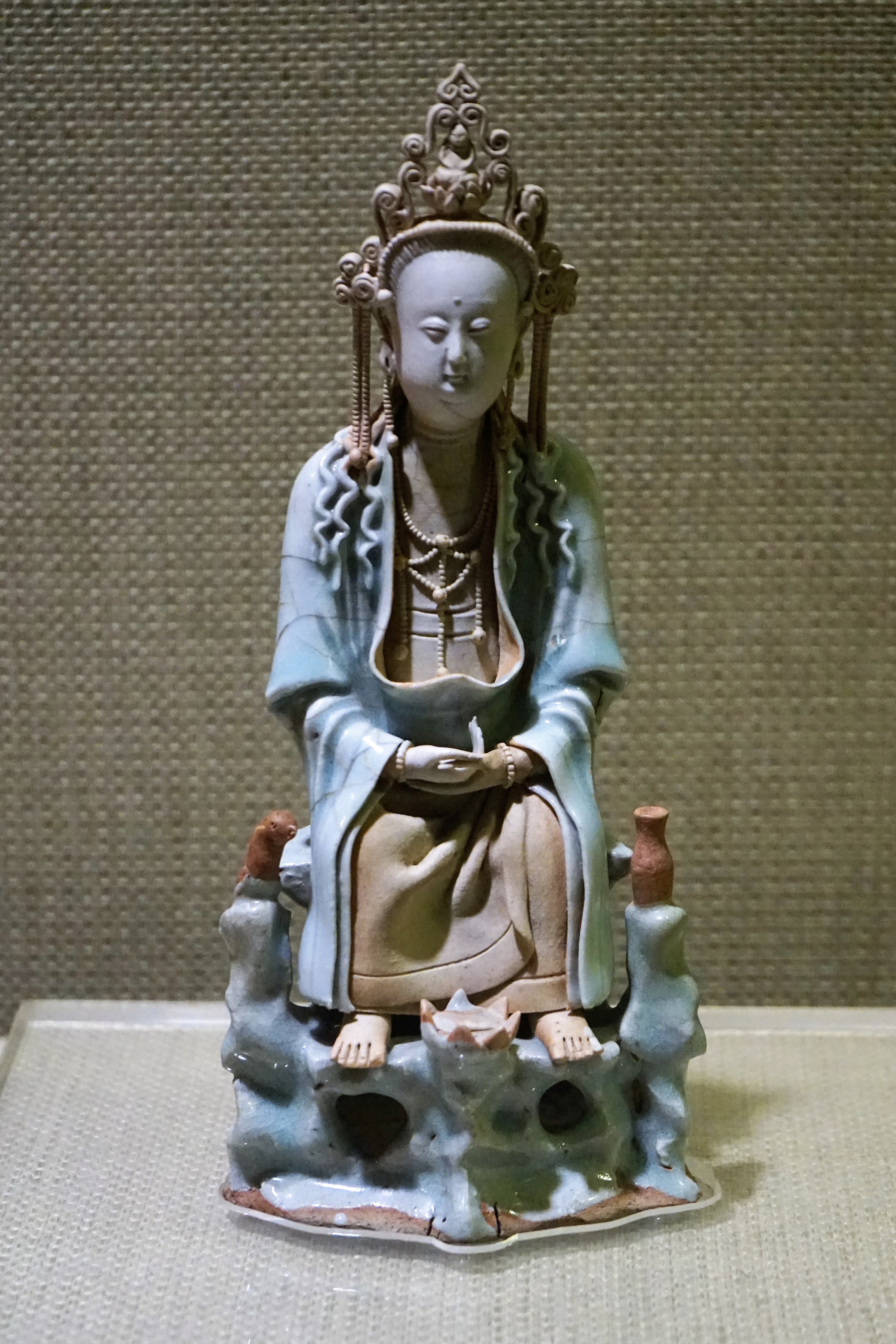 Misty Blue Sitting Statue of Avalokitesvara, Jingdezhen Kiln. Southern Song Dynasty. 1978年常州市委人防工程宋井出土。国家一级文物